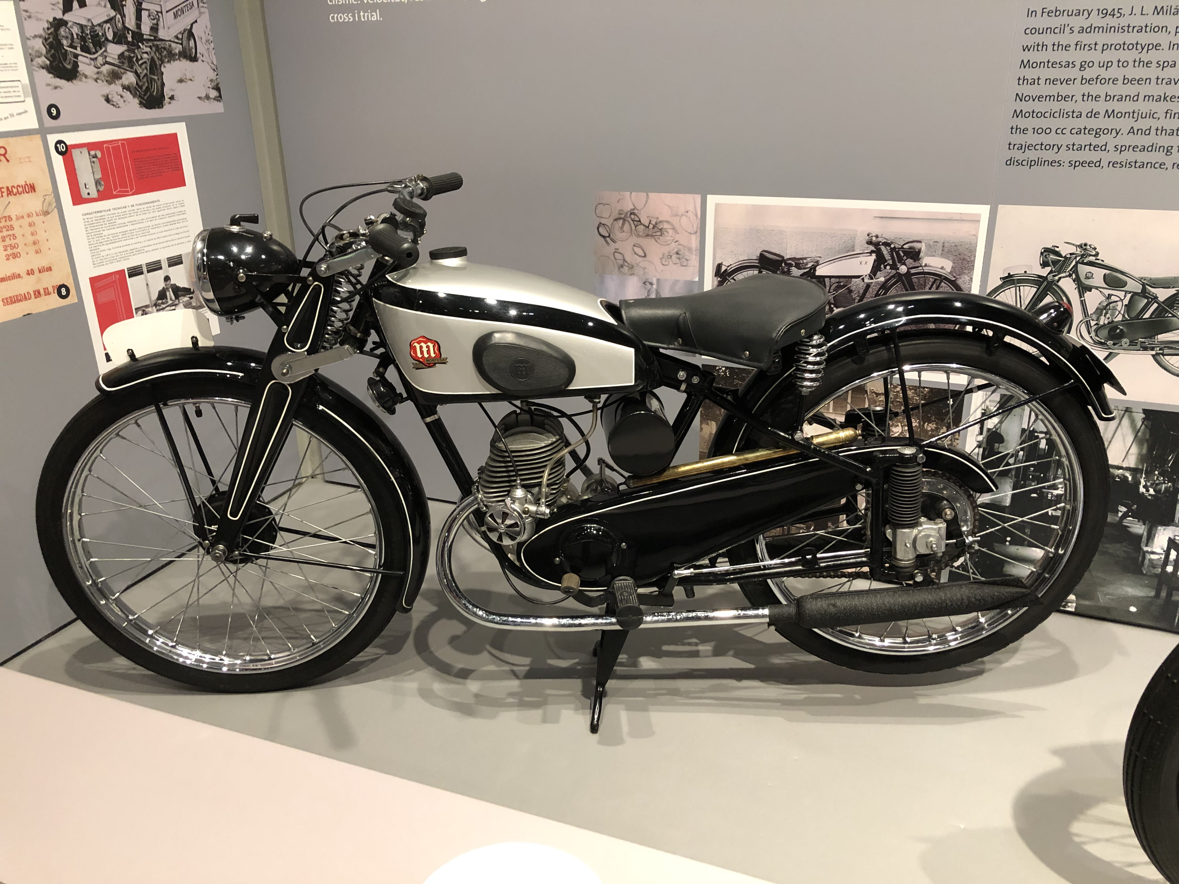 Montesa A45 (1945), Mod. MB, 98 cc